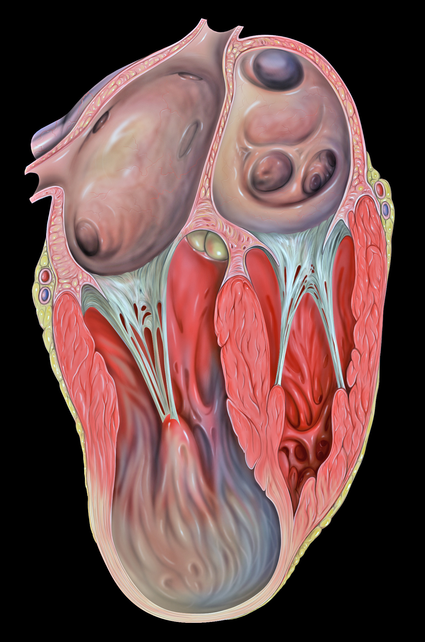 Left ventricular aneurysm, apical four-chamber echocardiography view